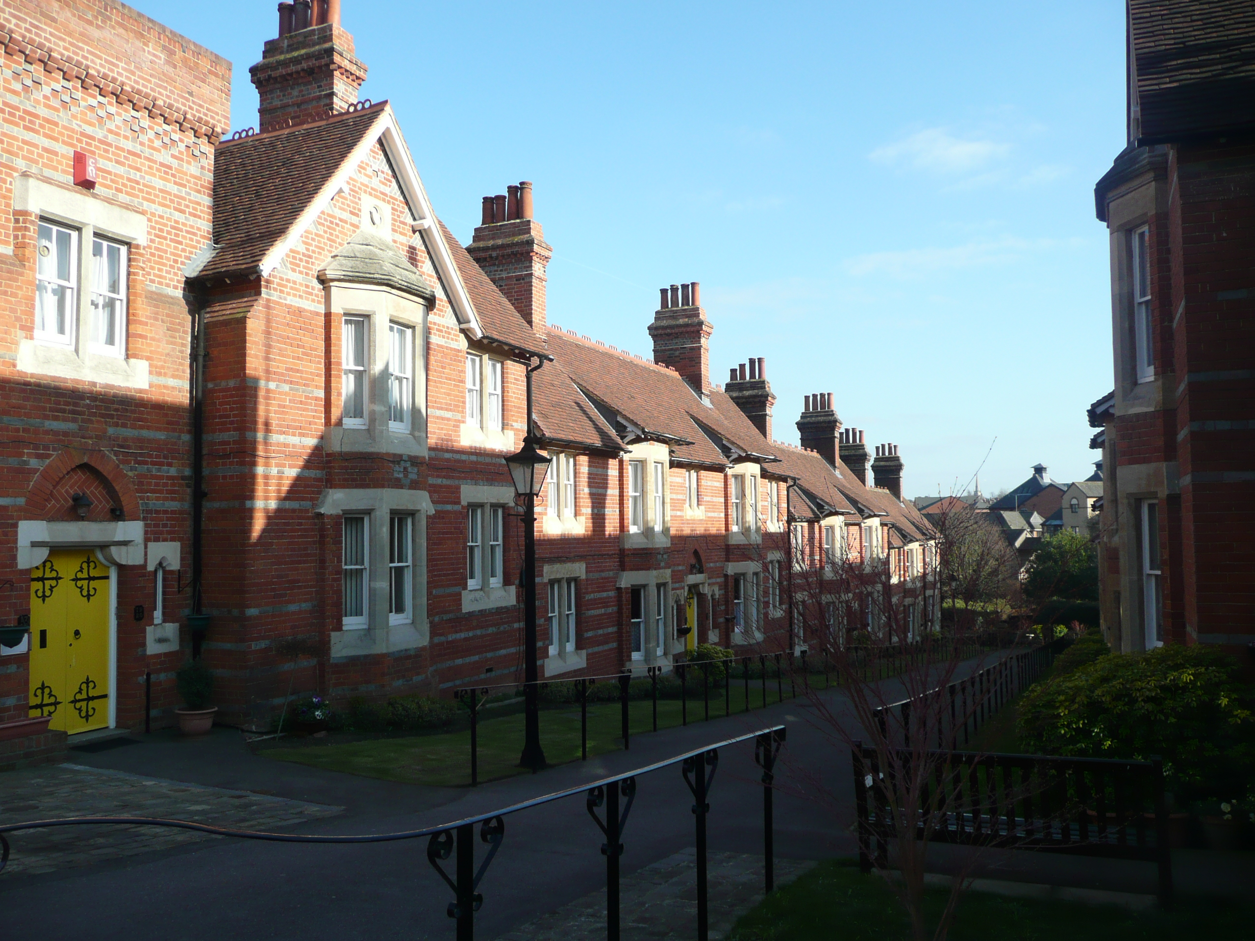 Vachel Almshouses, Castle Street, Reading. Designed by W H Woodman and completed 1863-5.